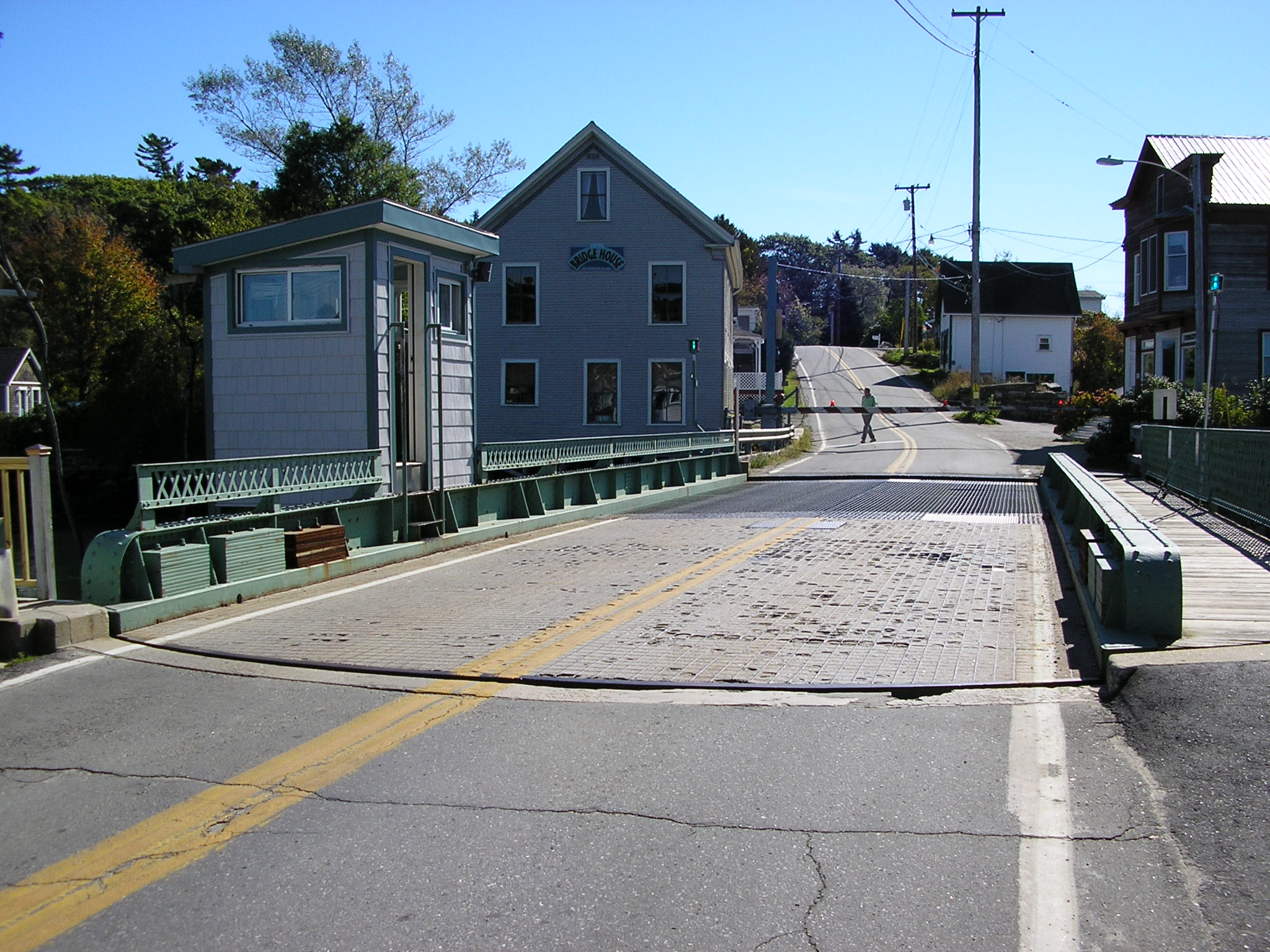 Taken by Adrian Preston in October 2006, who grants permission to use this image, and who uploaded it to .